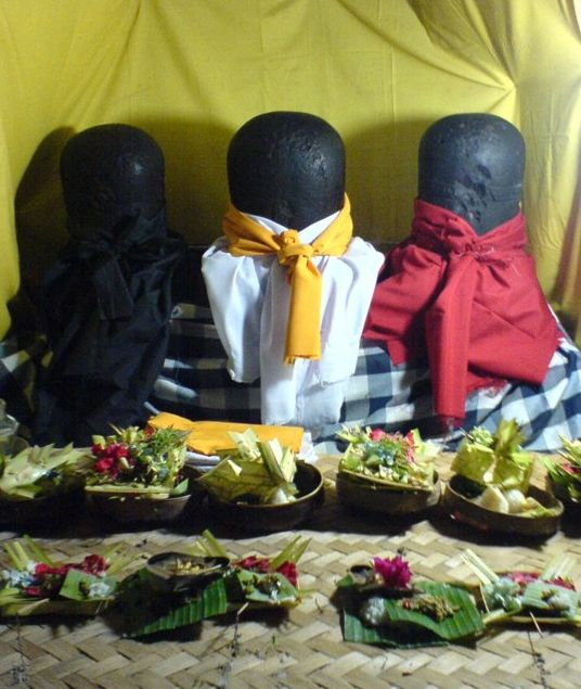 Thre lingam statues, one for each member of the Hindu gods Shiva, Brahma and Vishnu. From the ancient elephant cave at the temple Goa Gajah in Bali, Indonesia.